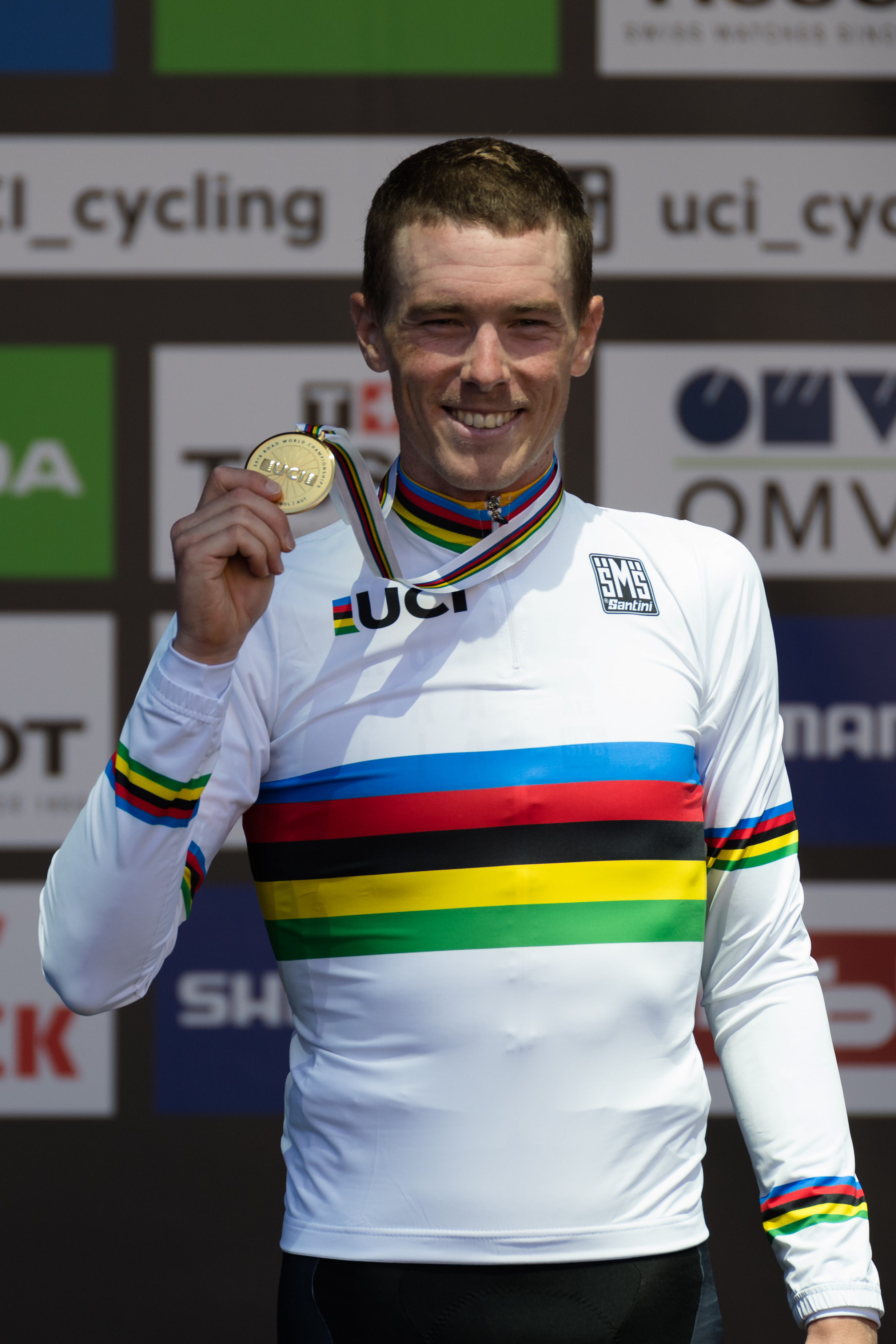 2018 UCI Road World Championships Innsbruck/Tirol Men's Individual Time Trial. Picture shows: Rohan Dennis of Australia